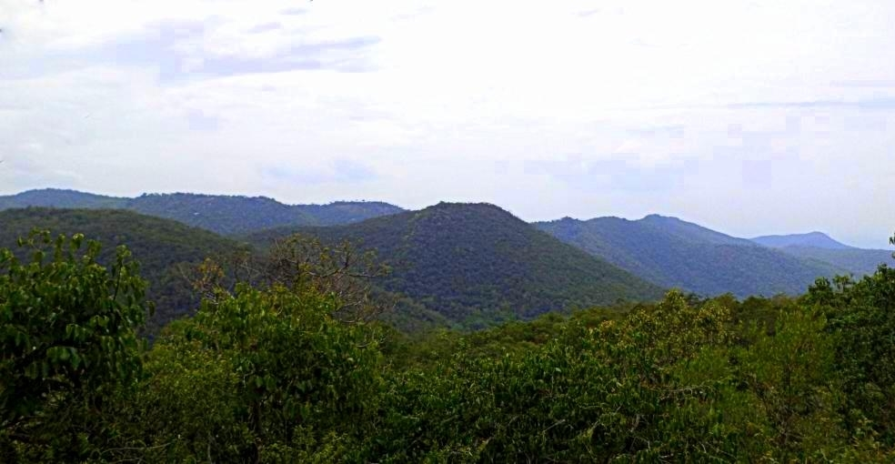 I took this pic on the way to village Suryakadai near sitheri hills